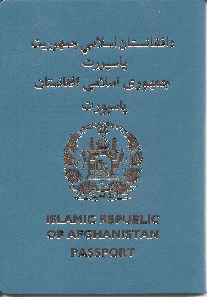 New eletronic readable passports issued by Afghan Ministry of Interior